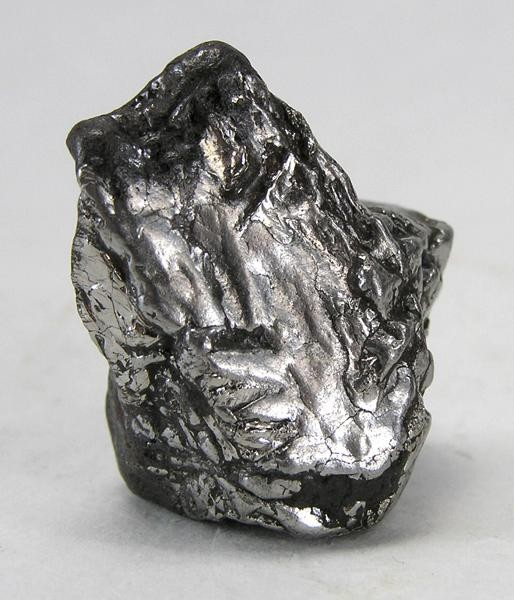 Iron (Var.: Kamacite) Locality: Nantan meteorites (Nandan meteorites), Lihu - Yaochai area, Nandan County, Hechi Prefecture, Guangxi Zhuang Autonomous Region, China (Locality at ) Size: 2.9 x 2.4 x 1.7 cm. From the accompanying literature: "Nantan iron meteorites represent one of the rare witnessed iron meteorite falls in the world. The fall was vividly recorded (in Chinese records): During summertime in May of Jiajing 11th year, stars fell from the northwest direction, five to six fold long, waving like snakes and dragons. They were bright as lightning and disappeared in seconds. These records show the meteorite to have fallen in the year 1516 AD. The fall site was not discovered until much later, in 1958. The specimens have a coarse octahedral structure, and contain 92.35% iron and 6.96% nickel, belonging to IIICD classification of Wasson et al. (1980’s)." Own a piece of both natural AND human history! This specimen weighs 26 grams.